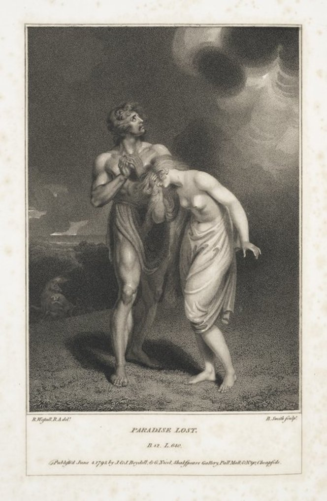 Original stipple engraving of "The life of Milton: in three parts. To which are added, Conjectures on the origin of Paradise lost: with an appendix. By William Hayley, Esq." Vol.1. By Hayley, William (1745-1820).